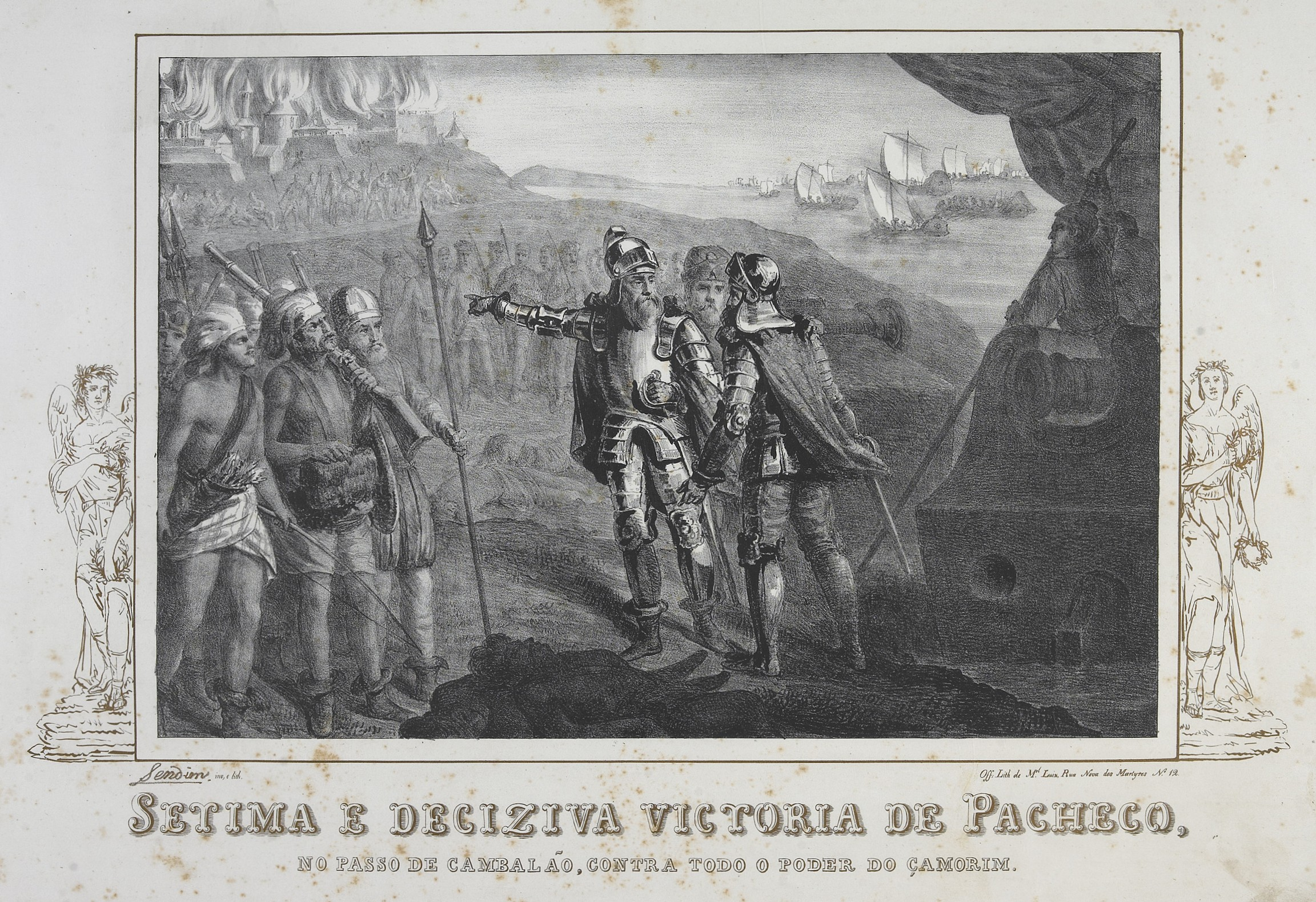 'Setima e deciziva victoria de Pacheco, no passo de Cambalão, contra todo o poder do Camorim' (trans: "The Seventh and Decisive victory of Pacheco at the Pass of Kumbalam, against all the power of the Zamorin"). Portuguese 1840 lithograph depicting the final victory of Portuguese commander Duarte Pacheco Pereira over the Zamorin of Calicut at the Battle of Cochin (1504)